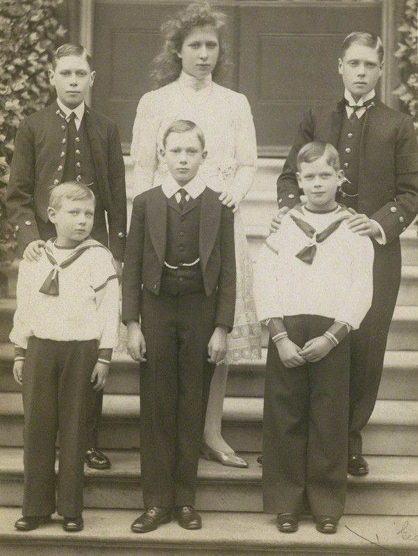 The children of George V and Mary of Teck in 1910.